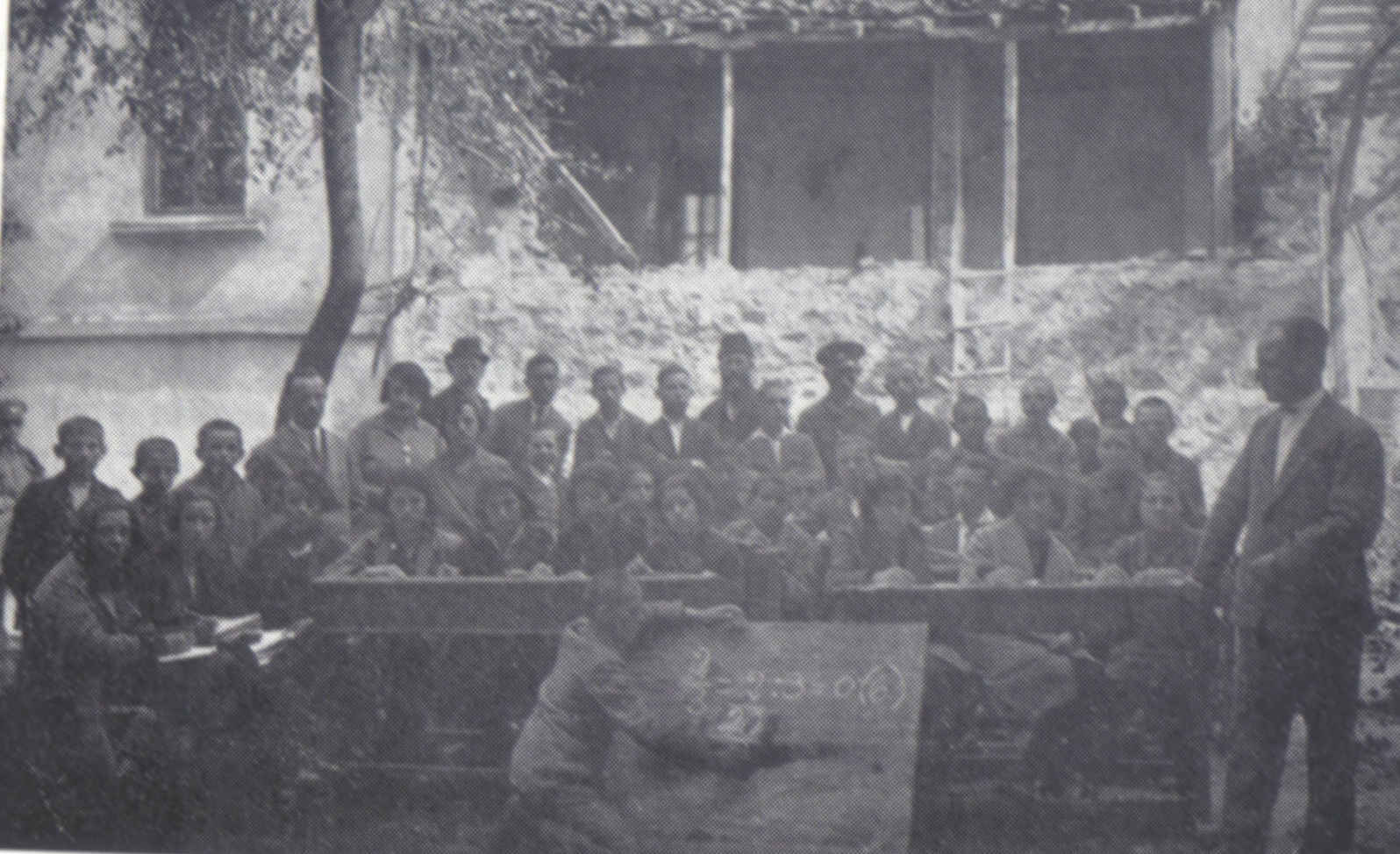 Pupils of the Jewish school in Plovdiv after the 1928 earthquake, centered in Chirpan, study in temporary facilities.